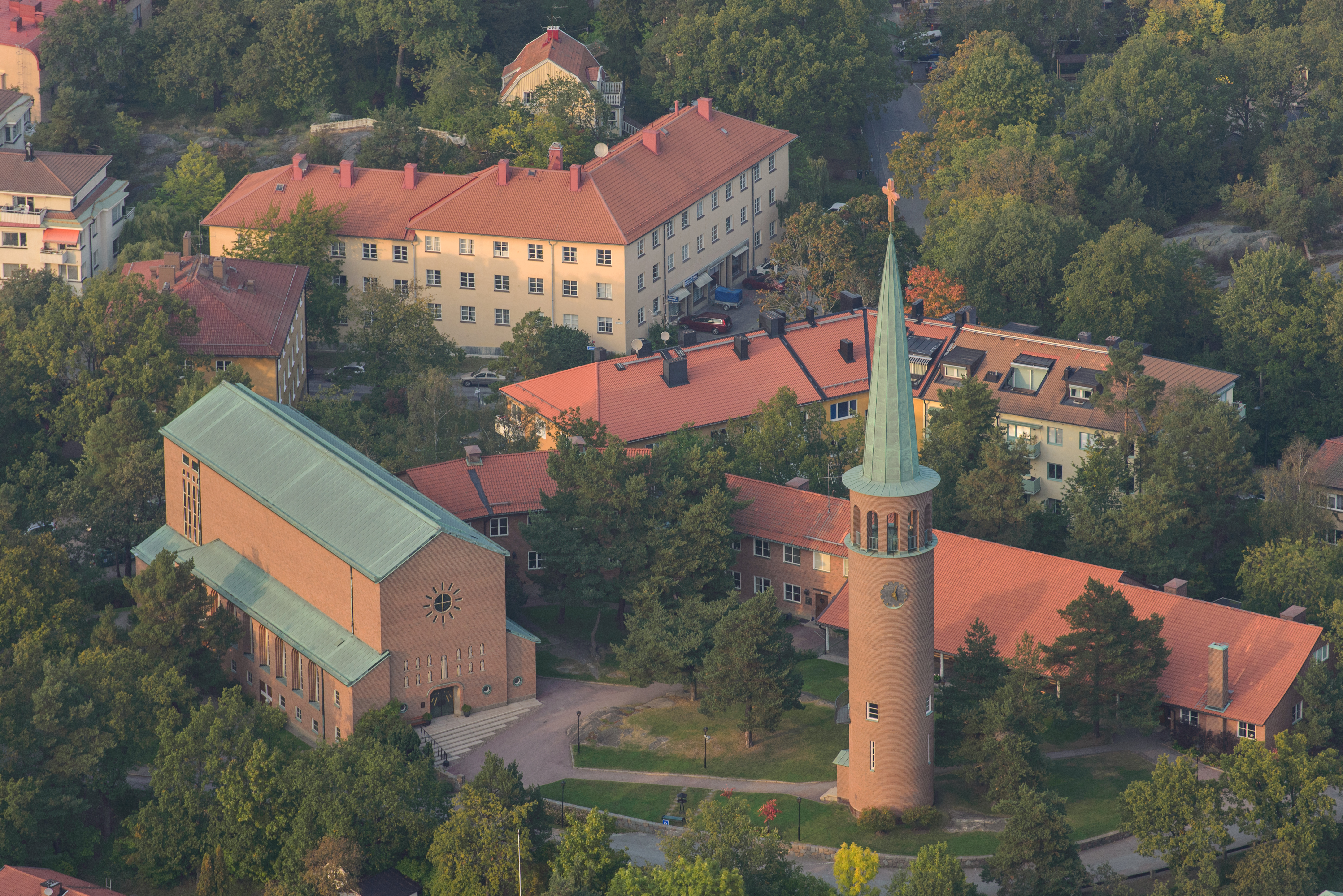 Essinge kyrka (church)